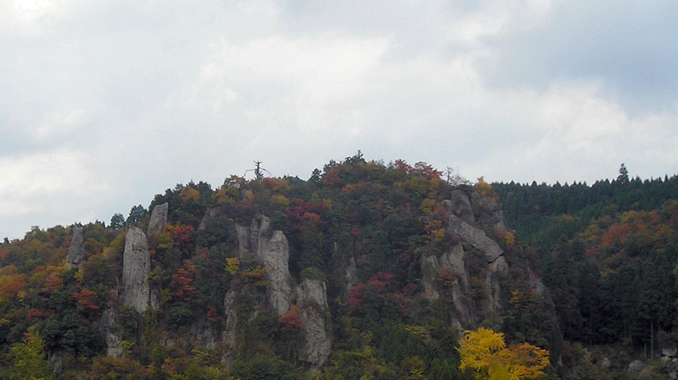 Tatehata-Scenery (立羽田の景), Kusu Town, Oita, Japan